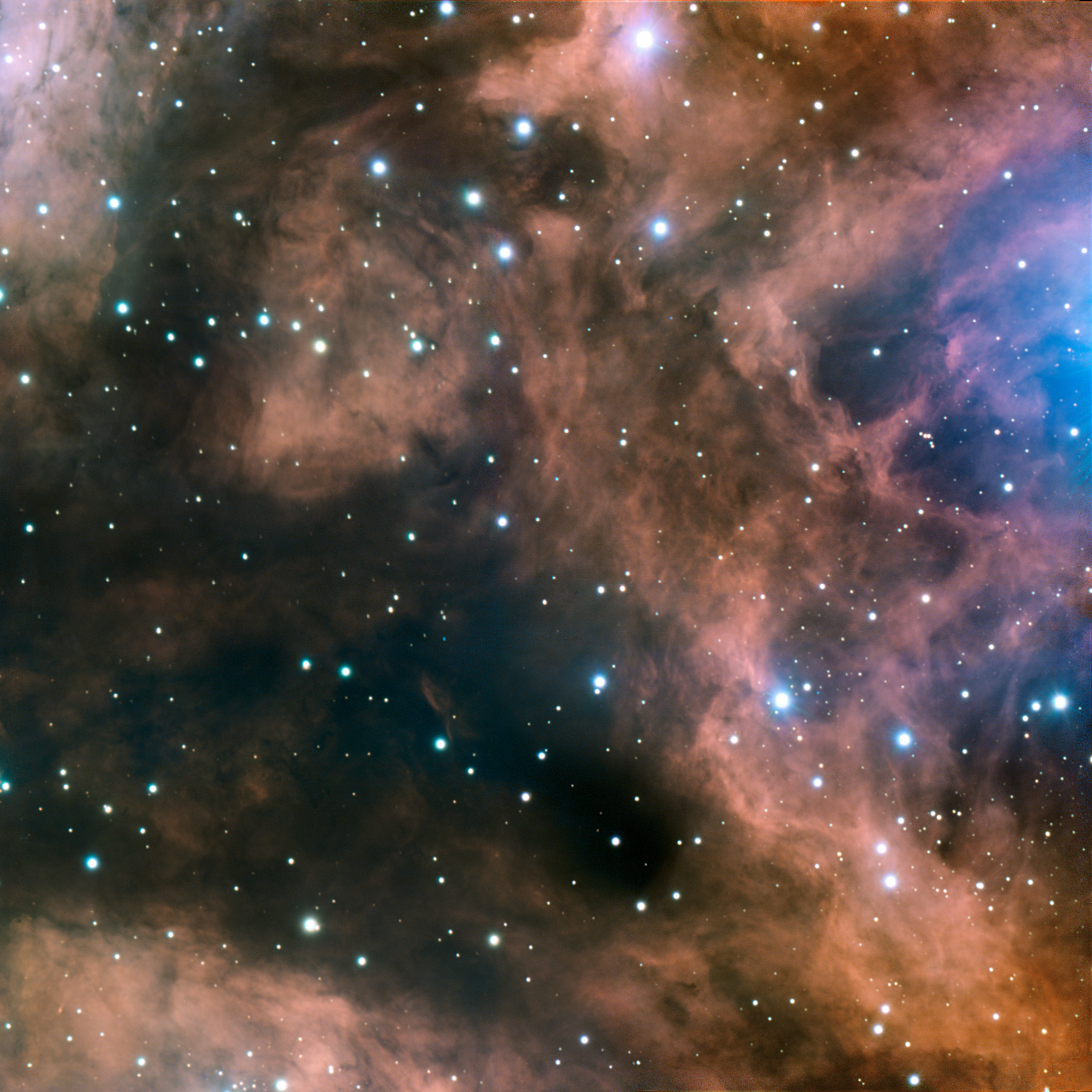 This image, captured by ESO’s Very Large Telescope (VLT) at Paranal, shows a small part of the well-known emission nebula, NGC 6357, located some 8000 light-years away, in the tail of the southern constellation of Scorpius (The Scorpion). The image glows with the characteristic red of an H II region, and contains a large amount of ionised and excited hydrogen gas. The cloud is bathed in intense ultraviolet radiation — mainly from the open star cluster Pismis 24, home to some massive, young, blue stars — which it re-emits as visible light, in this distinctive red hue. The cluster itself is out of the field of view of this picture, its diffuse light seen illuminating the cloud on the centre-right of the image. We are looking at a close-up of the surrounding nebula, showing a mesh of gas, dark dust, and newly born and still forming stars.